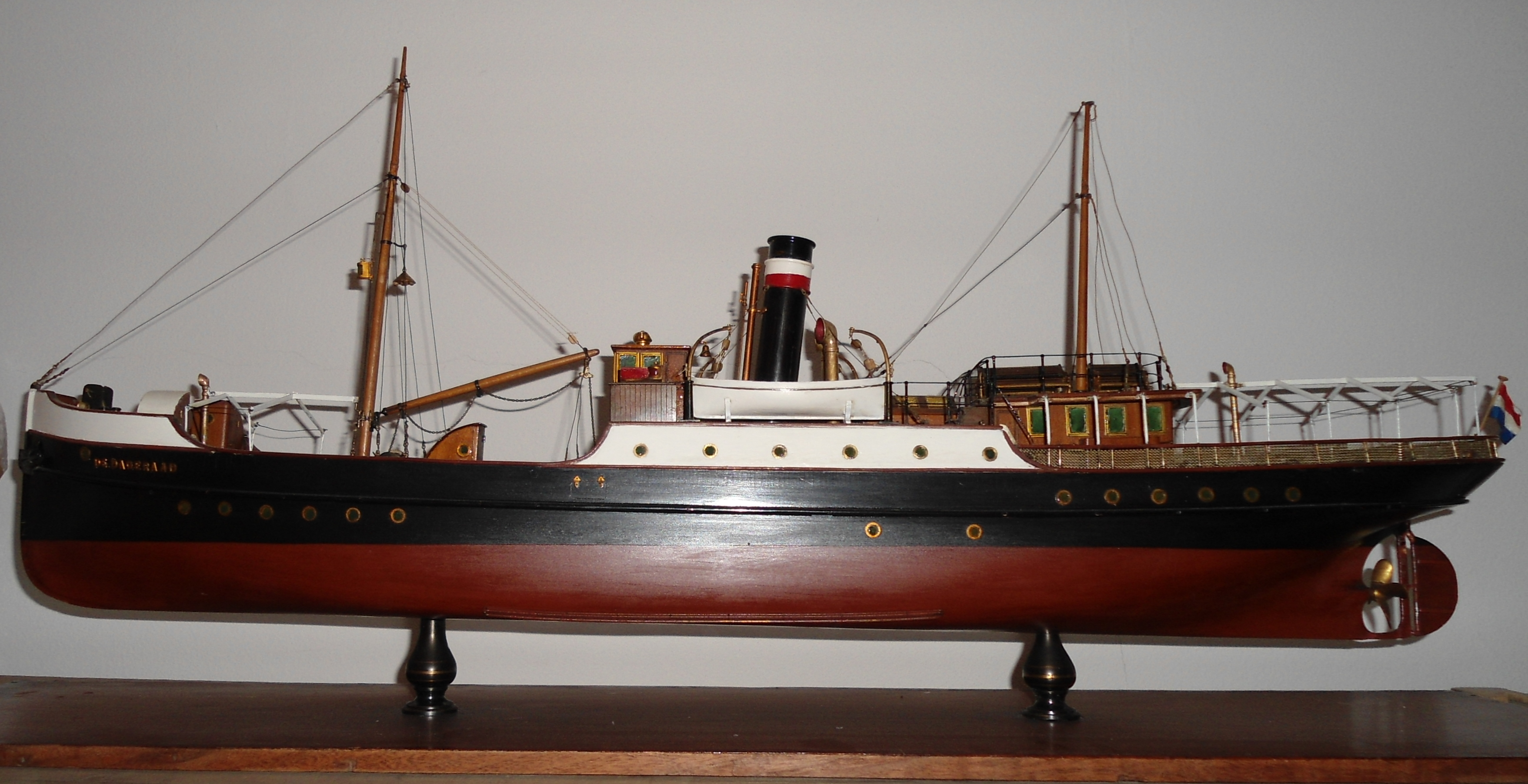 SS De Dageraad first ship of the TESO